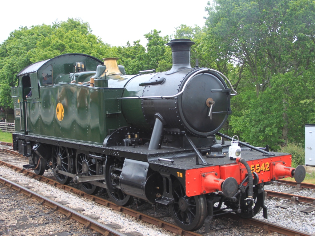 'Prairie tank' 5542, freshly turned out from the South Devon Railway's worshops in Great Western Railway livery with the 'shirtbutton' logo used in the 1930s.